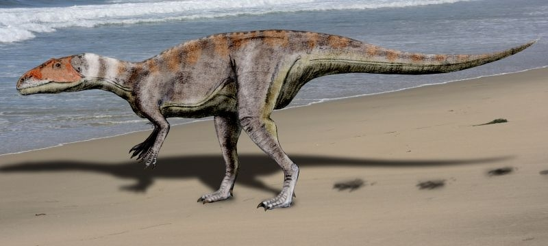 Dubreuillosaurus